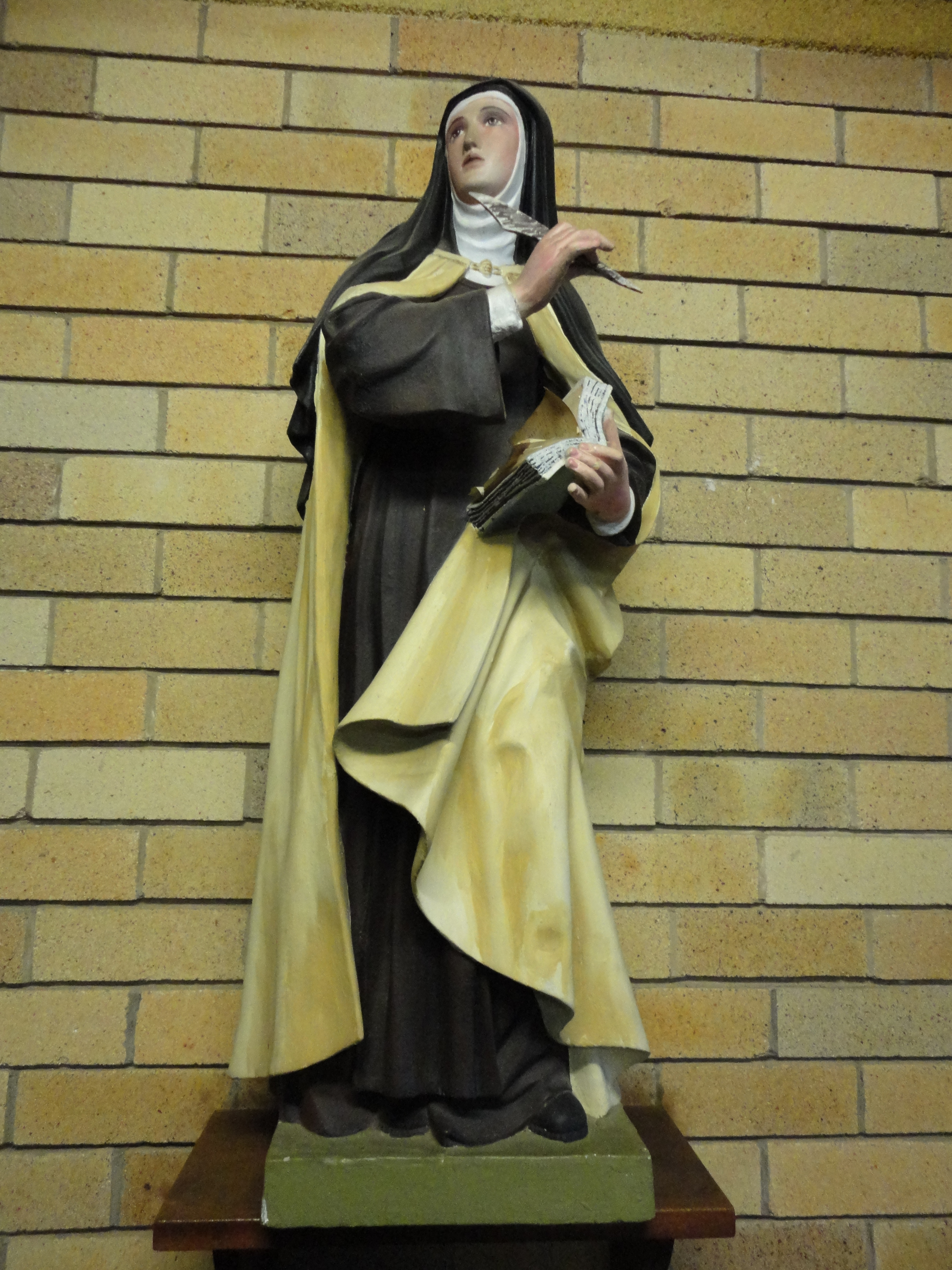 Statue of St. Teresa of Avila at Carmelite Monastery, Varroville, NSW, Australia.